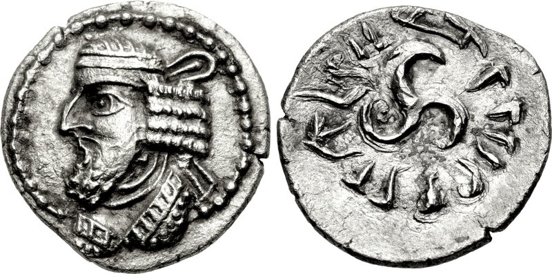 KINGS of PERSIS. Pakōr (Pakor) I. 1st century AD